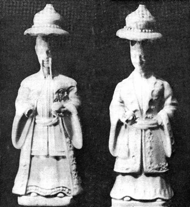 Porcelain Figurines, Miskolc, 1838